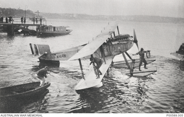 Fairey IIID Seaplane A10-3 Flown by Wing Commander Goble and Flight Lieutenant Mcintyre on a survey flight around Australia.